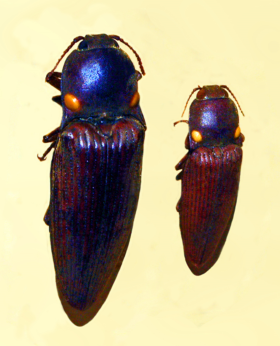 Pyrophorus punctatissimus from Paraguay. Mounted specimen